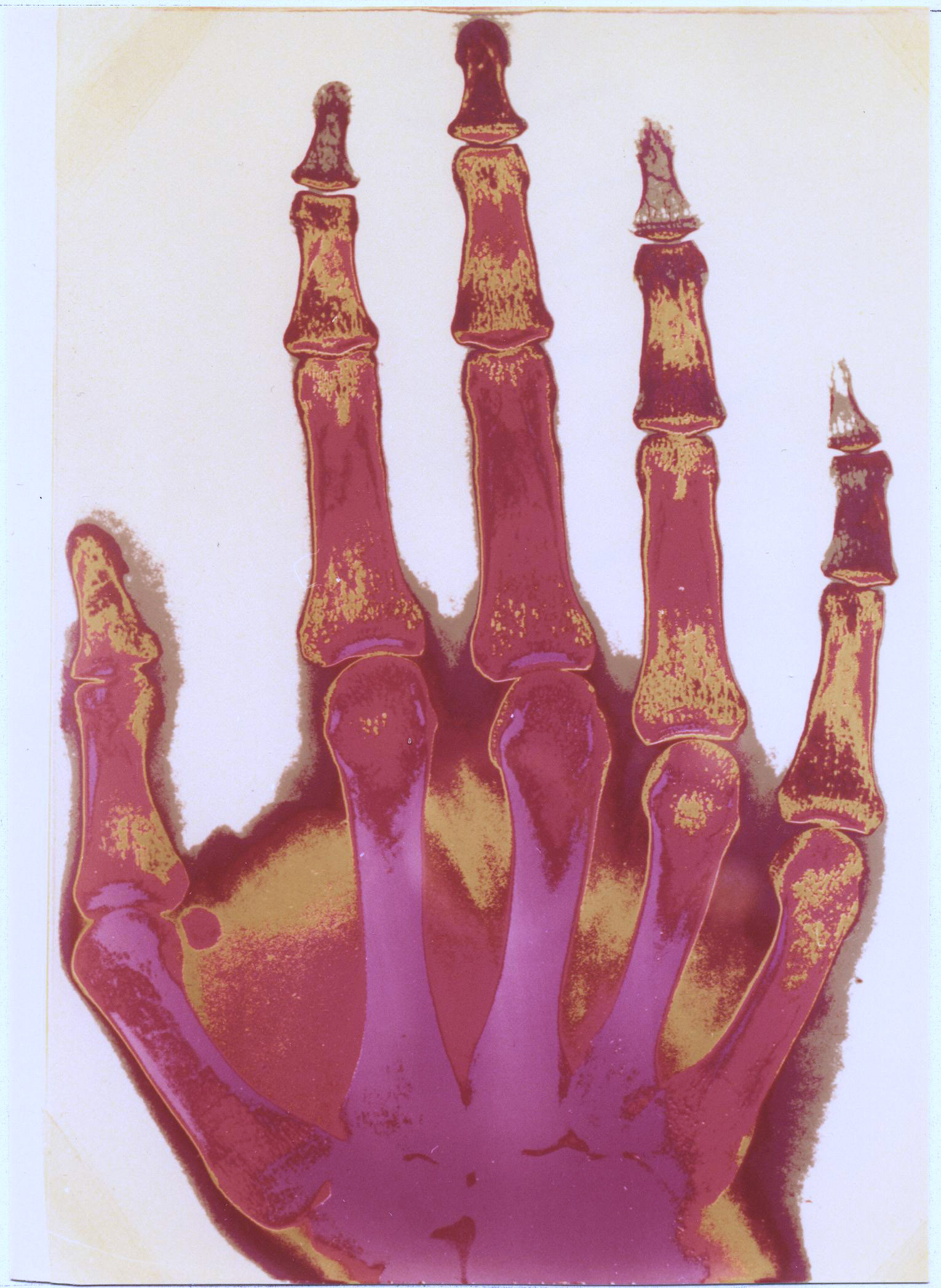 X-Ray image of right hand; colored equidensity-series using pseudo-solarization, B&W copies which were developed in a chromogenic developer and then sandwiched in register